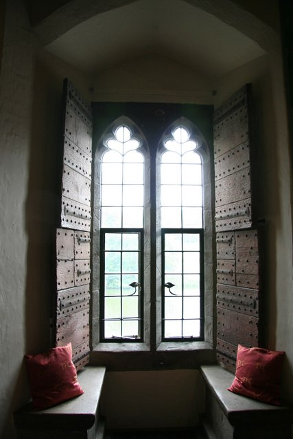 Queen's Room window. Window over the moat in the Queen's Room 1007629 at Leeds Castle